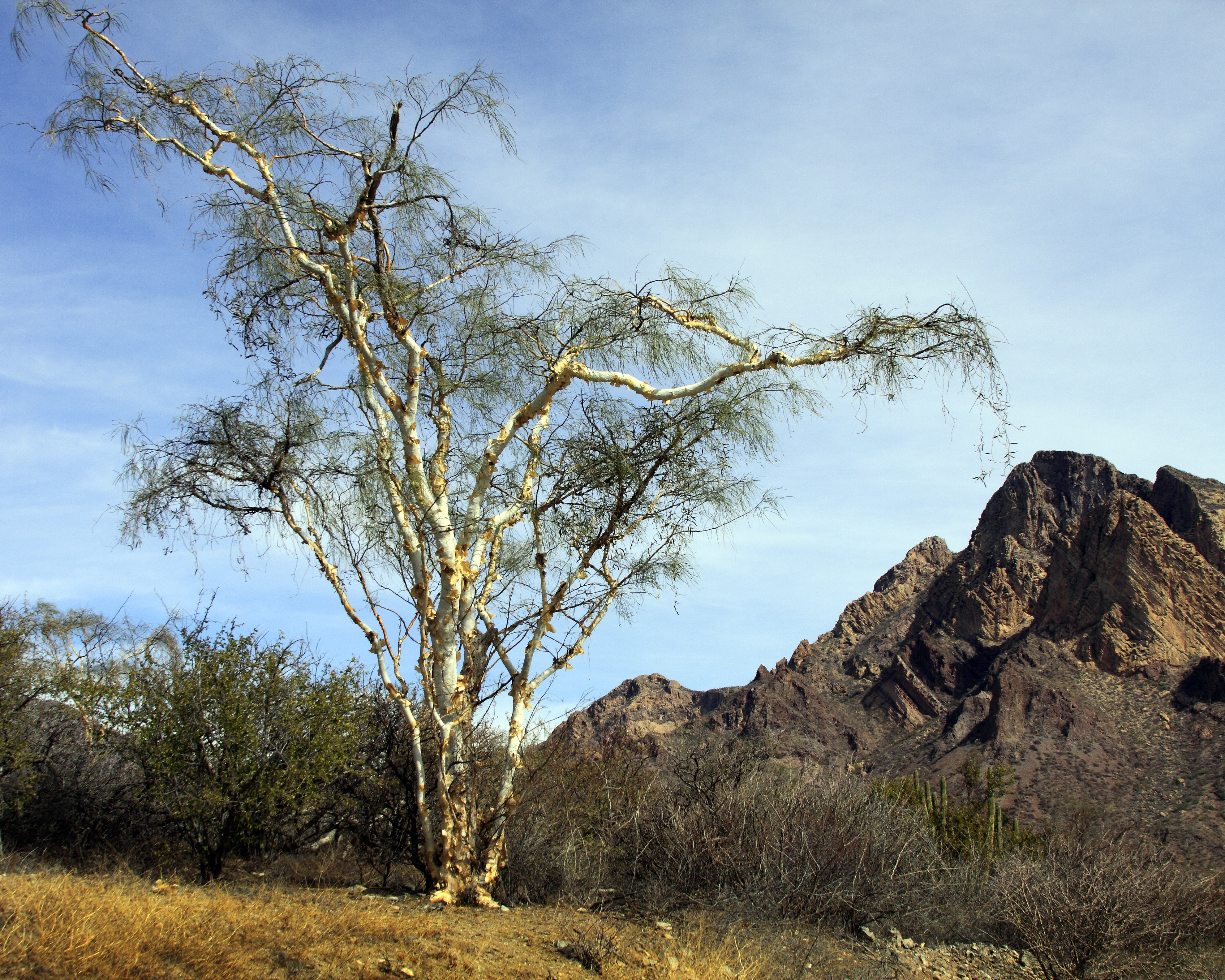 Palo Blanco Acacia willardiana tree in San Carlos, Sonora, Mexico